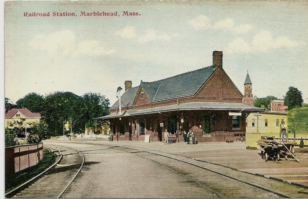 Early divided back postcard of Marblehead station